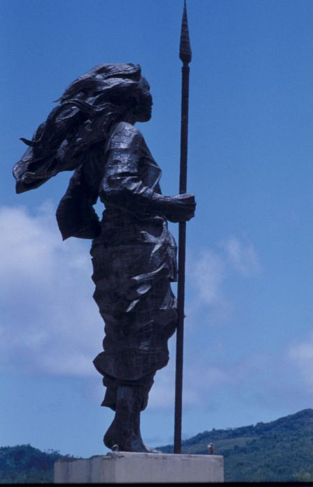 The Martha Christina Tiahahu Memorial